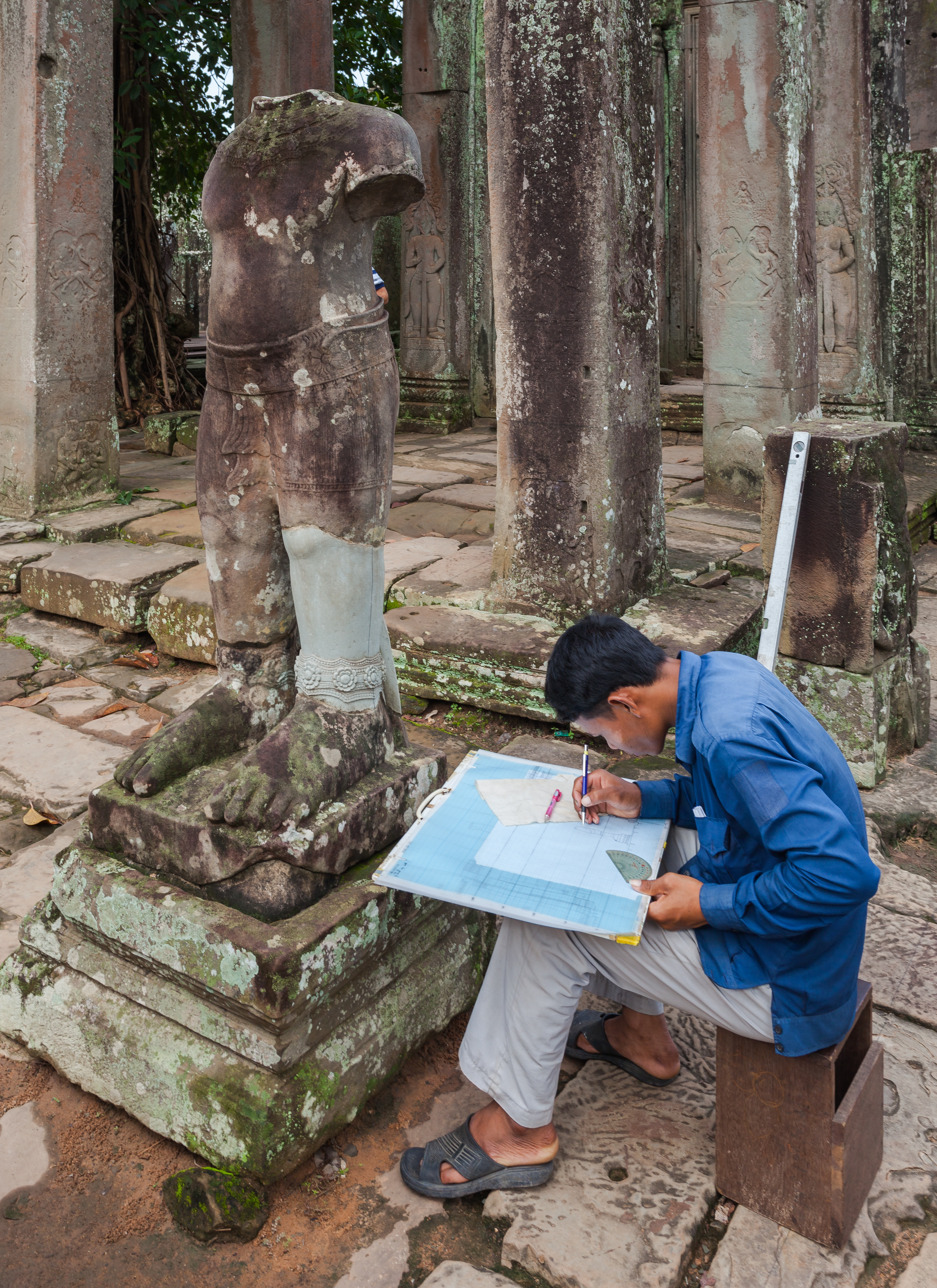 Bayon, Angkor Thom, Cambodia